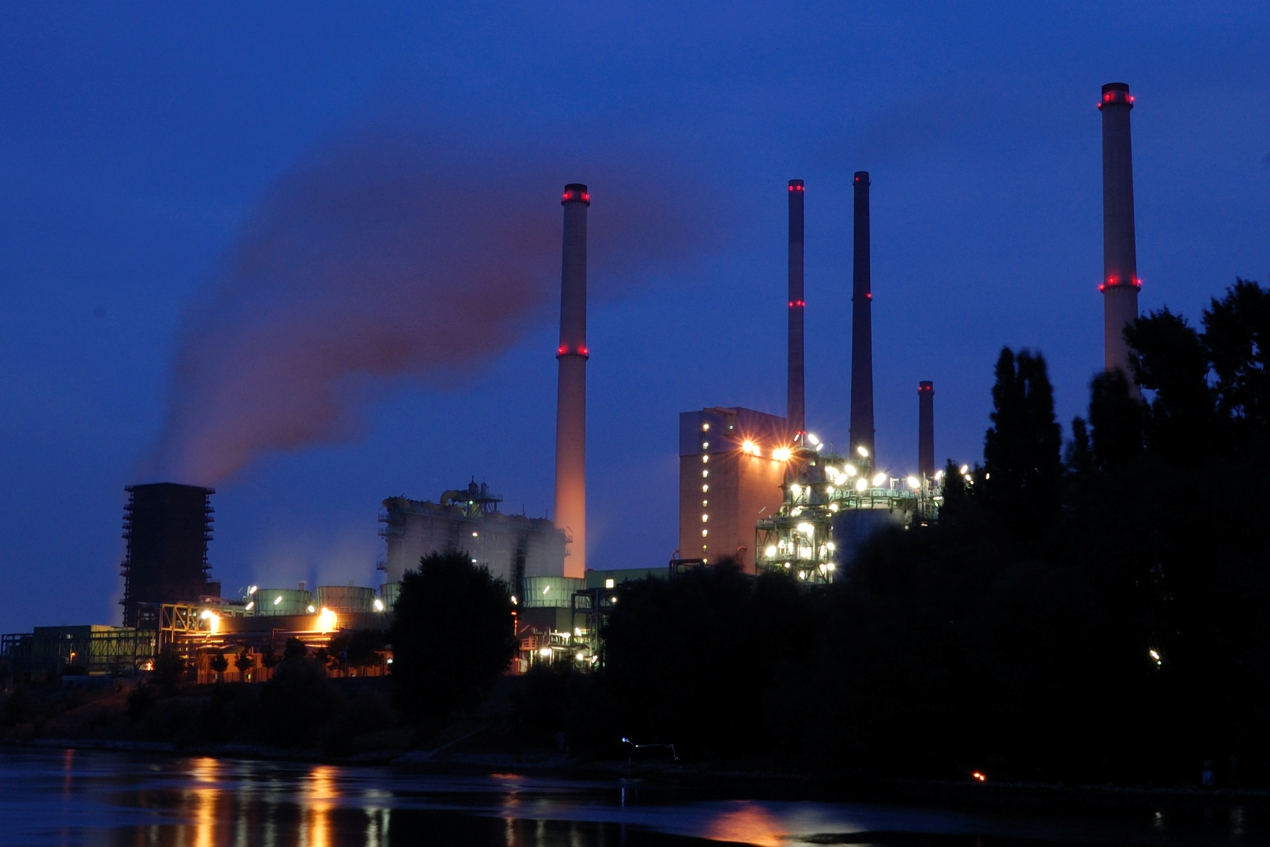 The Kokerei Schwelgern in Duisburg / Germany at night. The river is the Rhine.